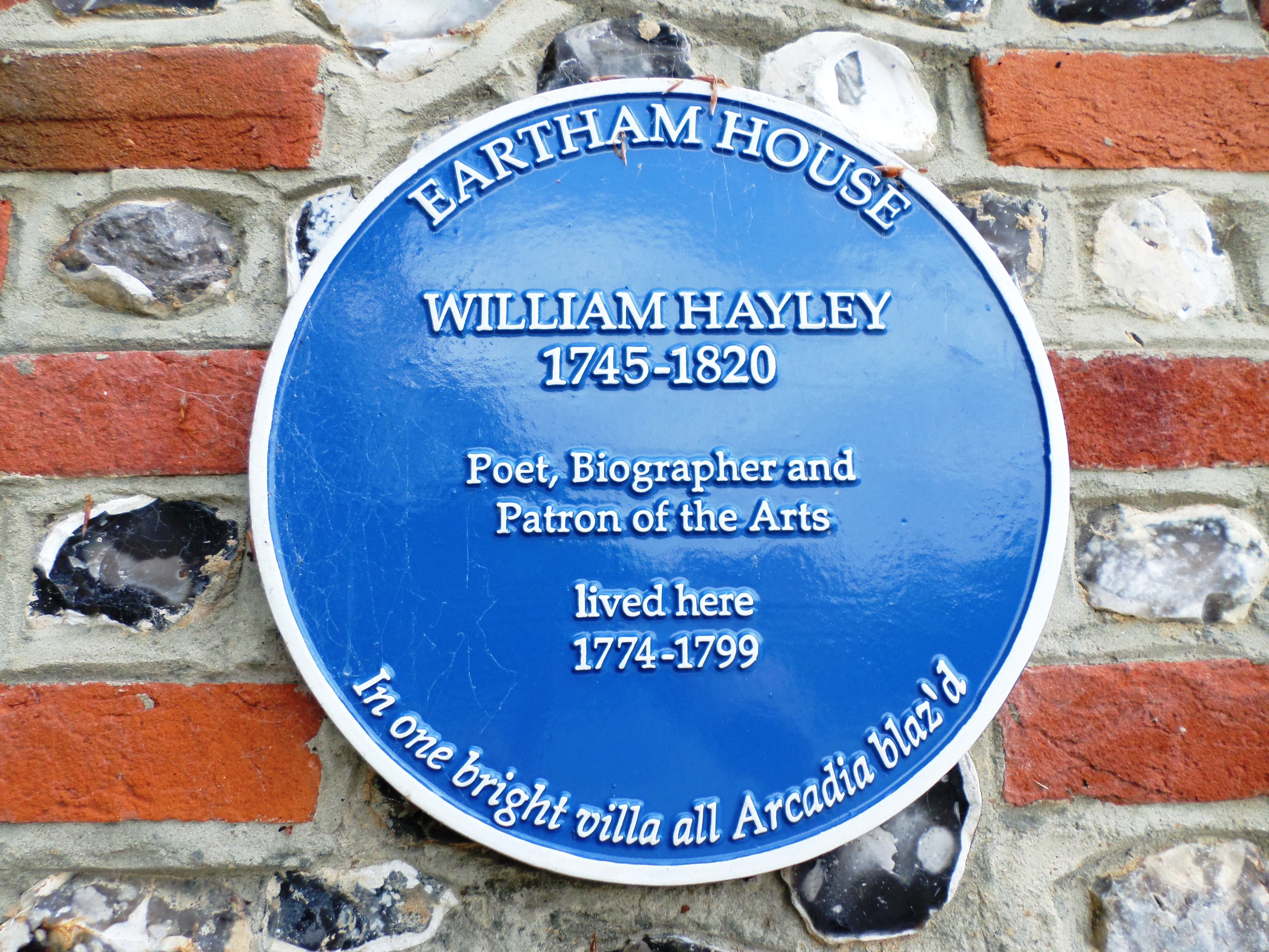 SAMSUNG CAMERA PICTURES